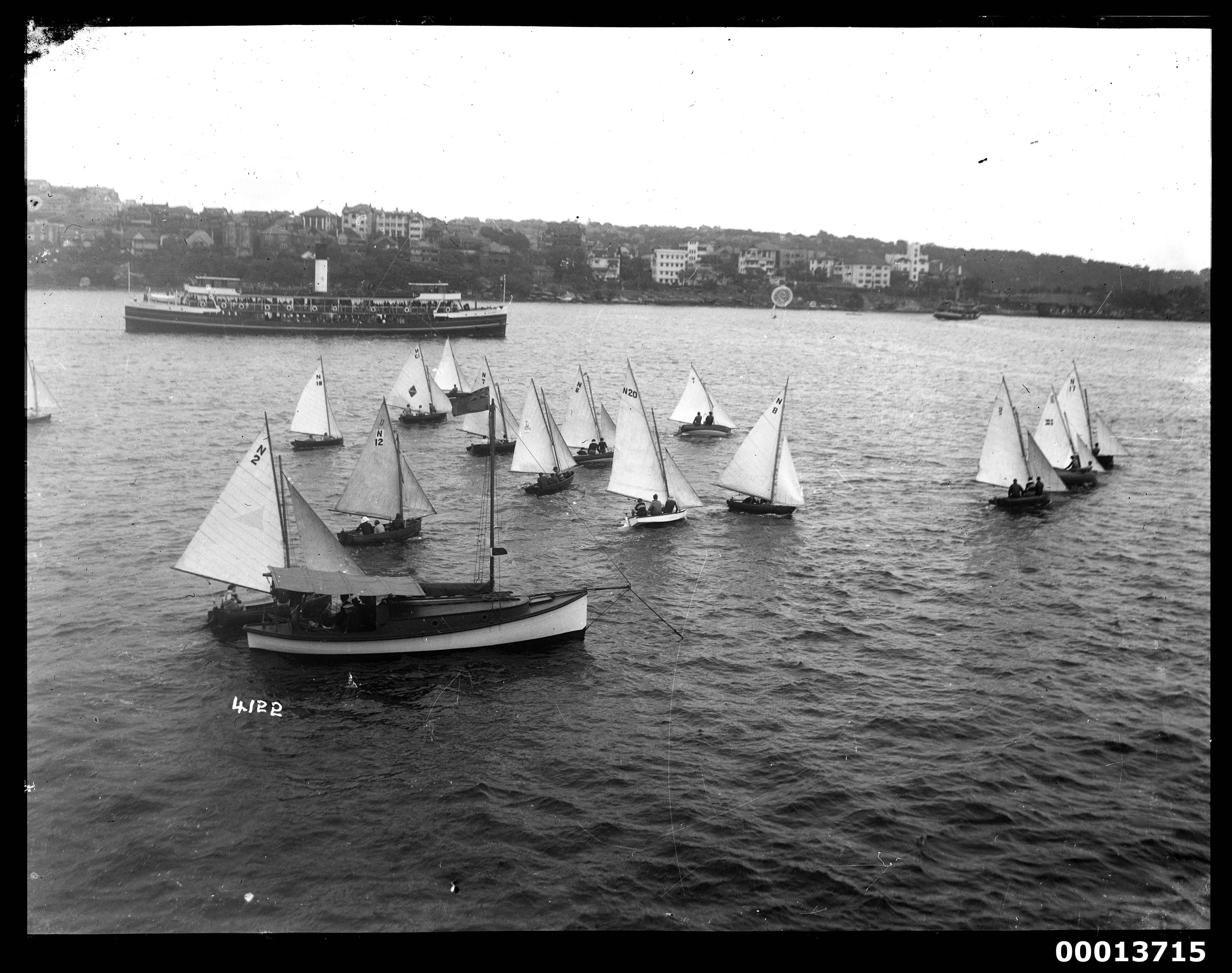 The Sydney Ferry BURRA BRA can be seen in the background of this image (left) as can Cremorne Point wharf (far right). This photo is part of the Australian National Maritime Museum’s William Hall collection. The Hall collection combines photographs from both William J Hall and his father William Frederick Hall. The images provide an important pictorial record of recreational boating in Sydney Harbour, from the 1890s to the 1930s – from large racing and cruising yachts, to the many and varied skiffs jostling on the harbour, to the new phenomenon of motor boating in the early twentieth century. The collection also includes studio portraits and images of the many spectators and crowds who followed the sailing races. The Australian National Maritime Museum undertakes research and accepts public comments that enhance the information we hold about images in our collection. If you can identify a person, vessel or landmark, write the details in the Comments box below. Thank you for helping caption this important historical image. Object number 00013715